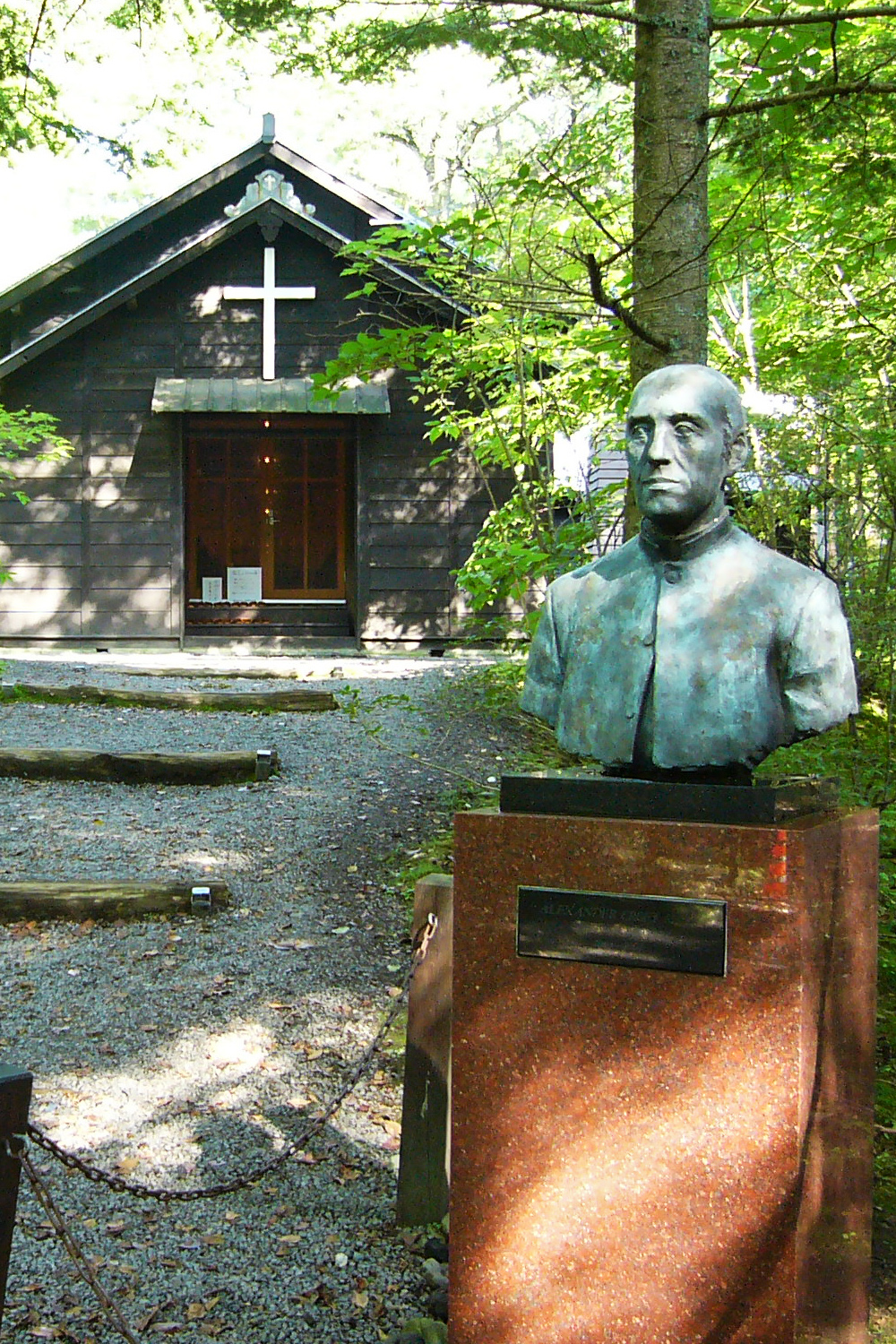 Shaw memorial chapel in Karuizawa, Nagano prefecture, Japan